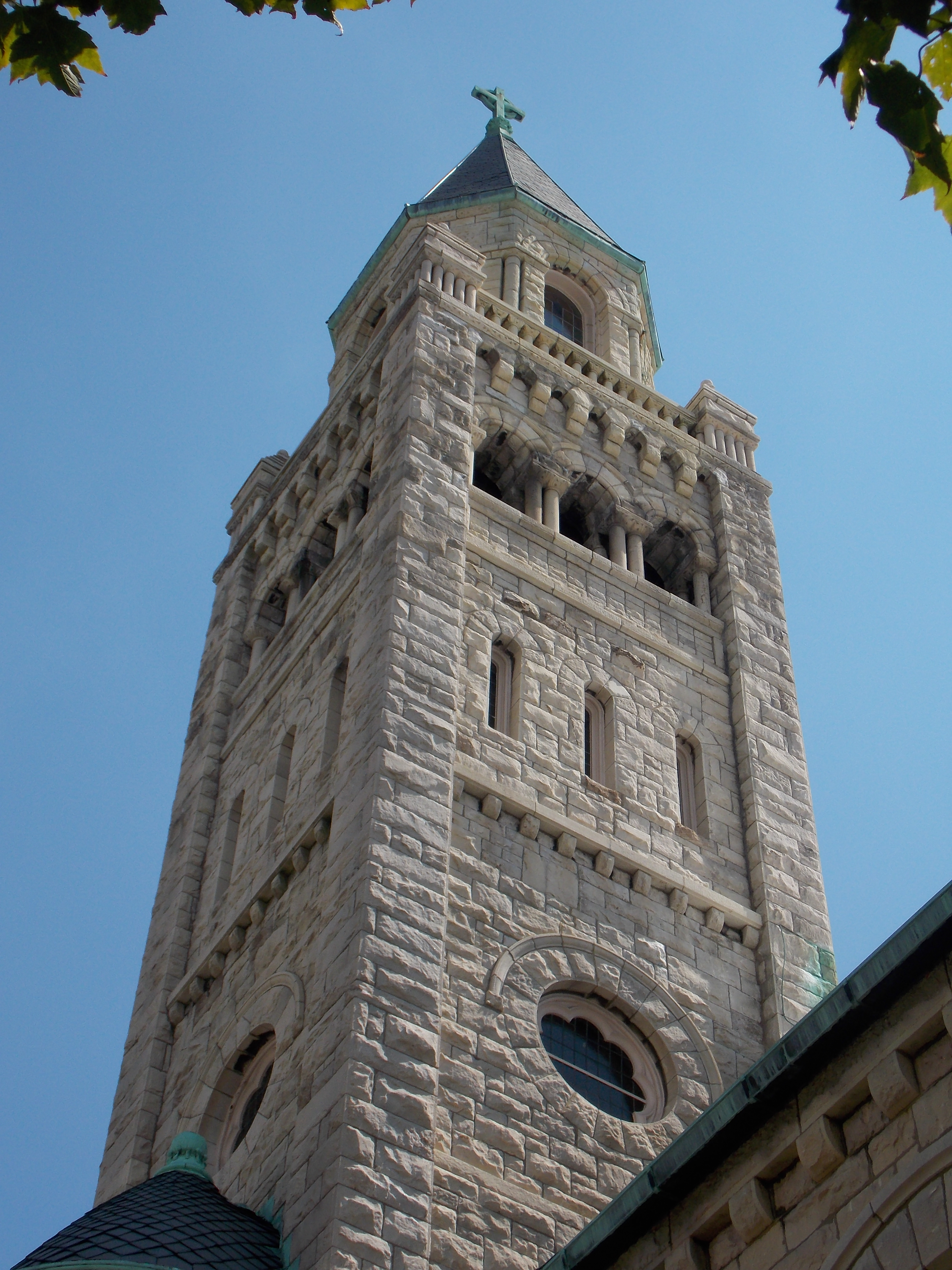 St. Peter's Catholic Church on Capitol Hill in Washington, D.C.